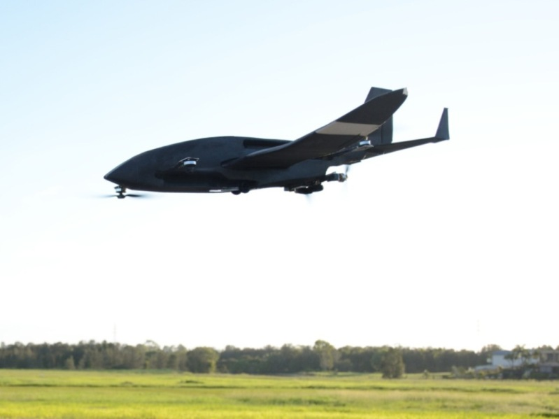 Krossblade SkyProwler Transformer UAV/Drone during Hover/vertical take-off and landing. SkyProwler is a research drone used for developing new vertical take-off and landing (VTOL) technologies for aircraft.